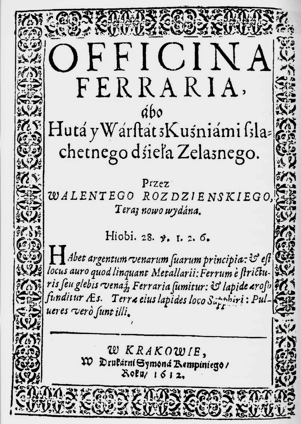 "Officina ferraria abo huta i warstat z kuźniami szlachetnego dzieła żelaznego przez Walentego Roździeńskiego teraz nowo wydana", Kraków 1612, S. Kempini